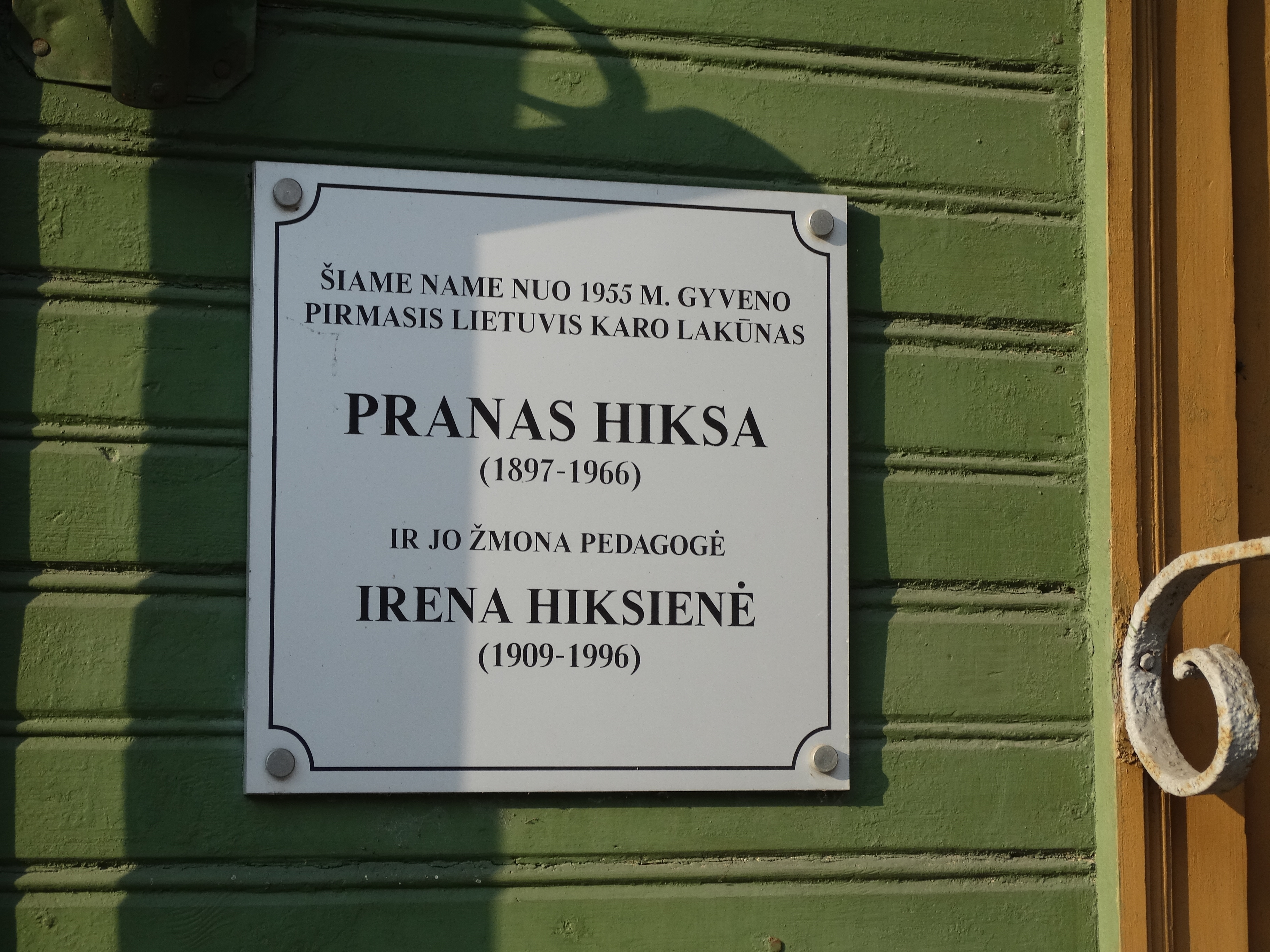 Memorial plaque to Pranas Hiksa, Kaunas, Lithuania